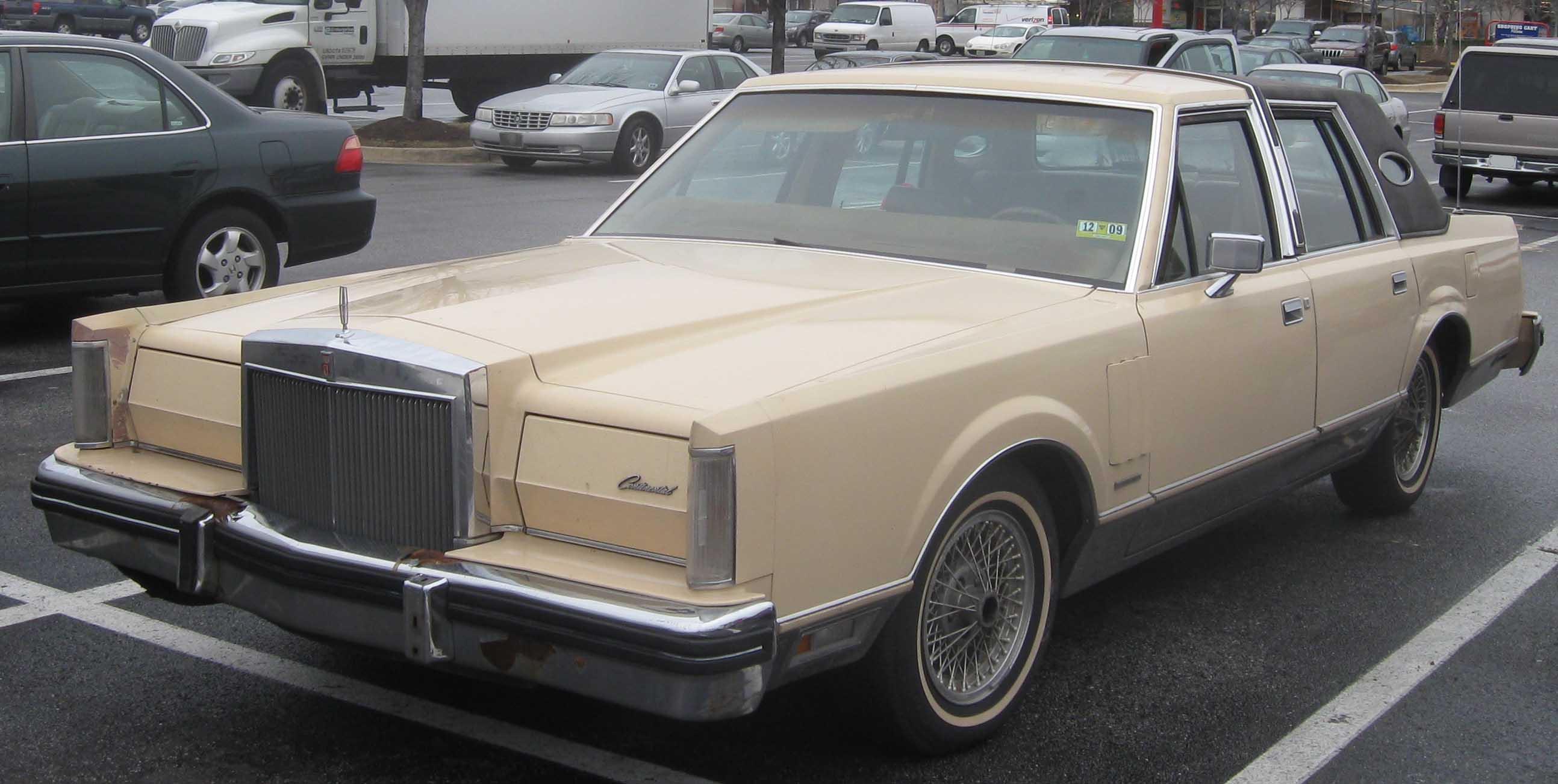 1980-1981 Lincoln Continental Mark VI photographed in Largo, Maryland, USA.